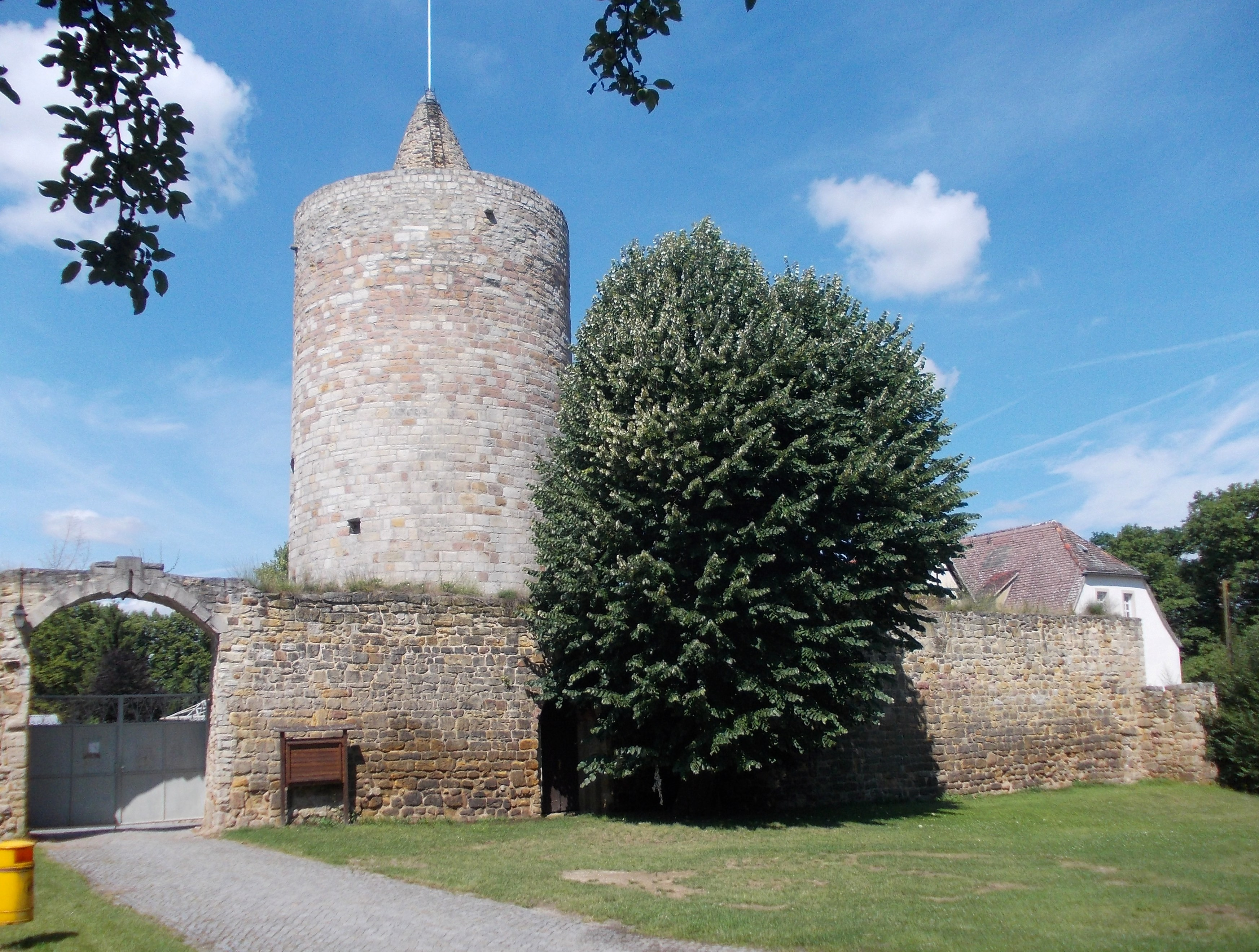 Osterfeld Castle (district: Burgenlandkreis, Saxony-Anhalt)